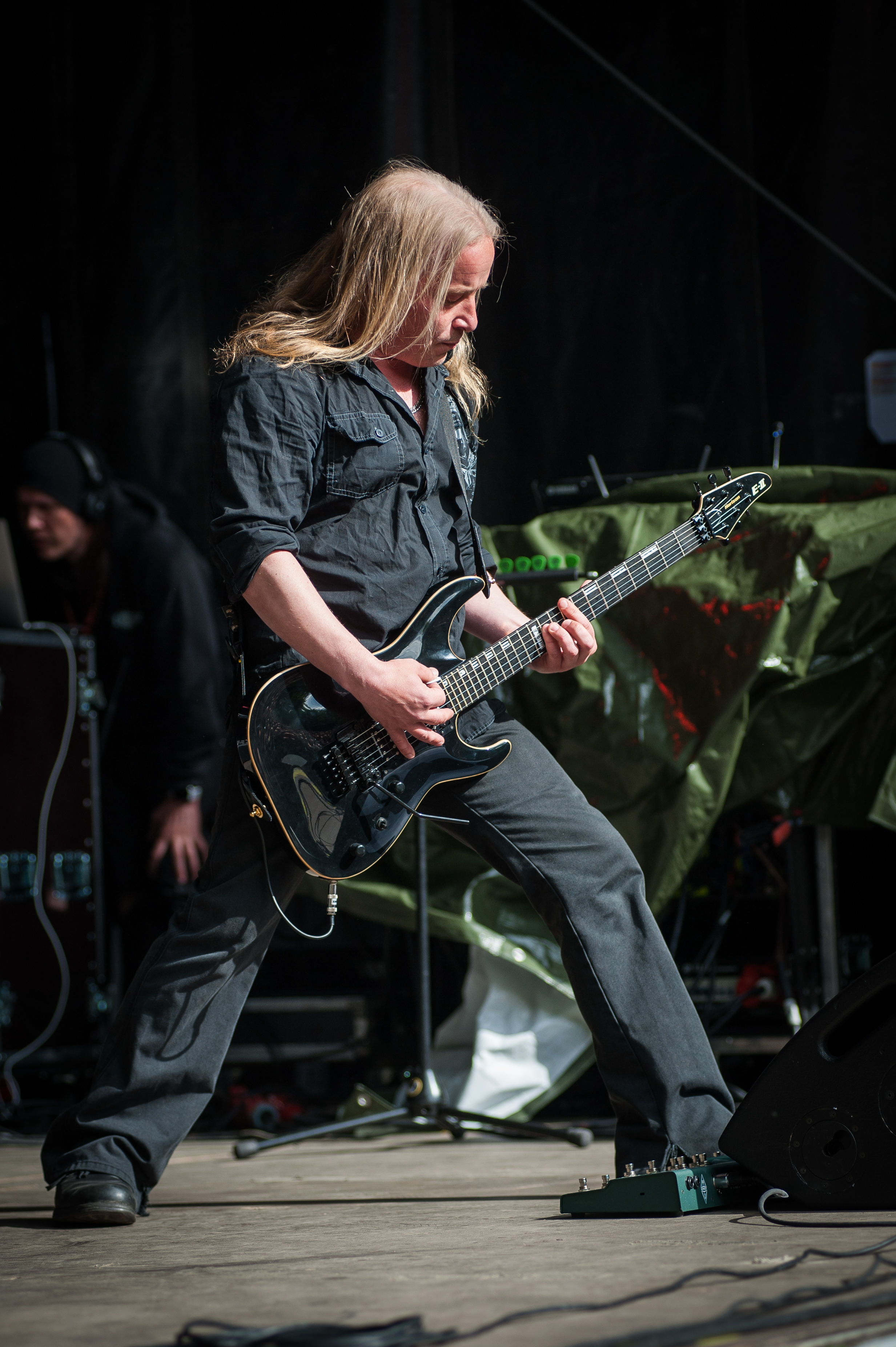 Finnish hard rock band Brother Firetribe performing at the 2018 South Park Festival in Tampere, Finland.